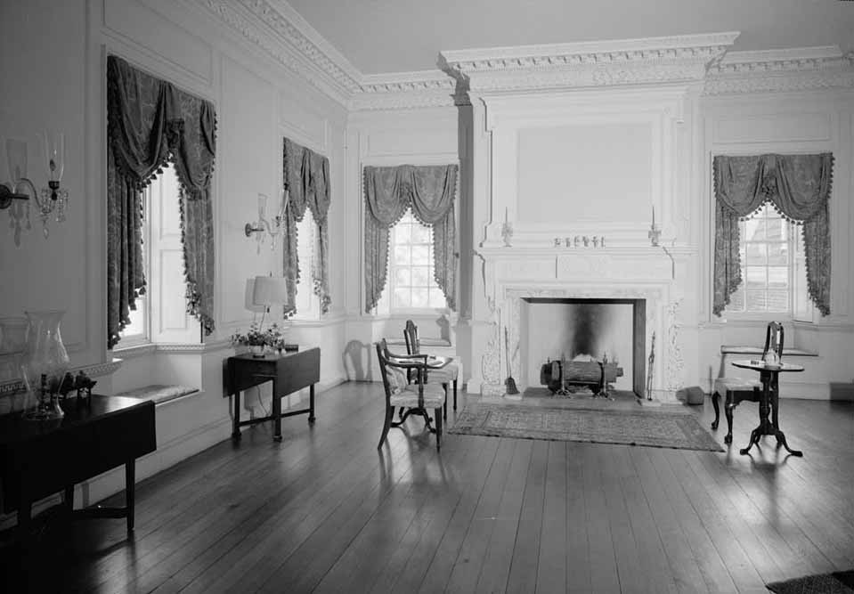 HABS photograph of the ballroom, looking northeast, of the James Brice House in Annapolis, Maryland, USA